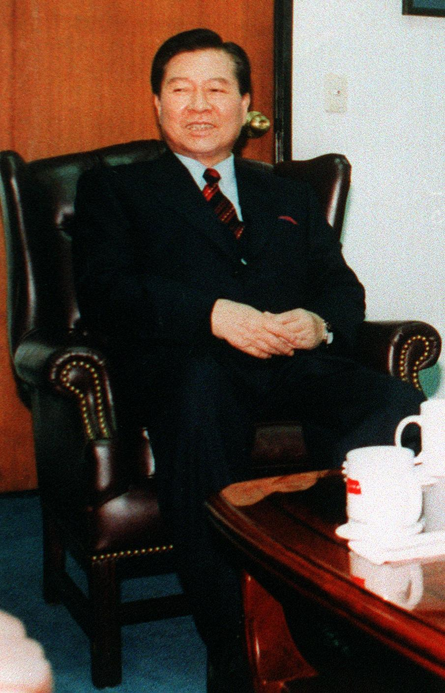 The South Korean President and the U.S. Ambassador to South Korea Steven Bosworth receive a briefing from a member of the Combined Forces Command.